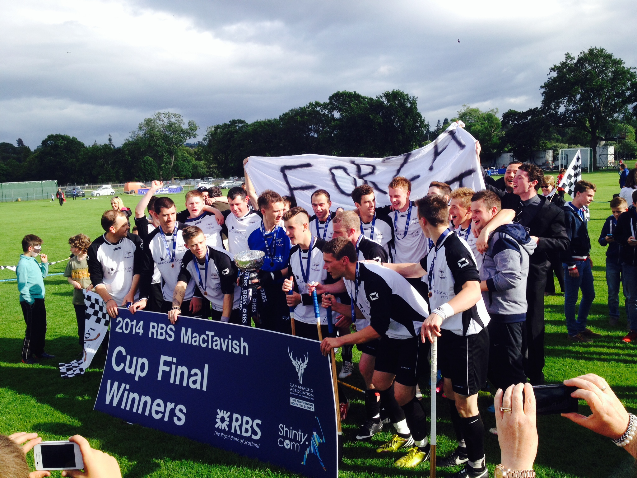 The Bught Park Stadium Inverness - Photo Taken at MacTavish Cup Final 2014